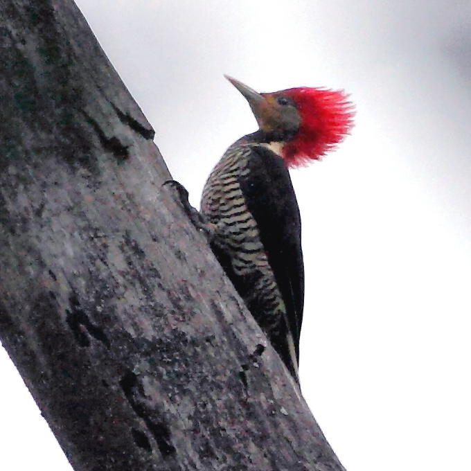 Helmeted Woodpecker at Intervales State Park - SP - Brazil